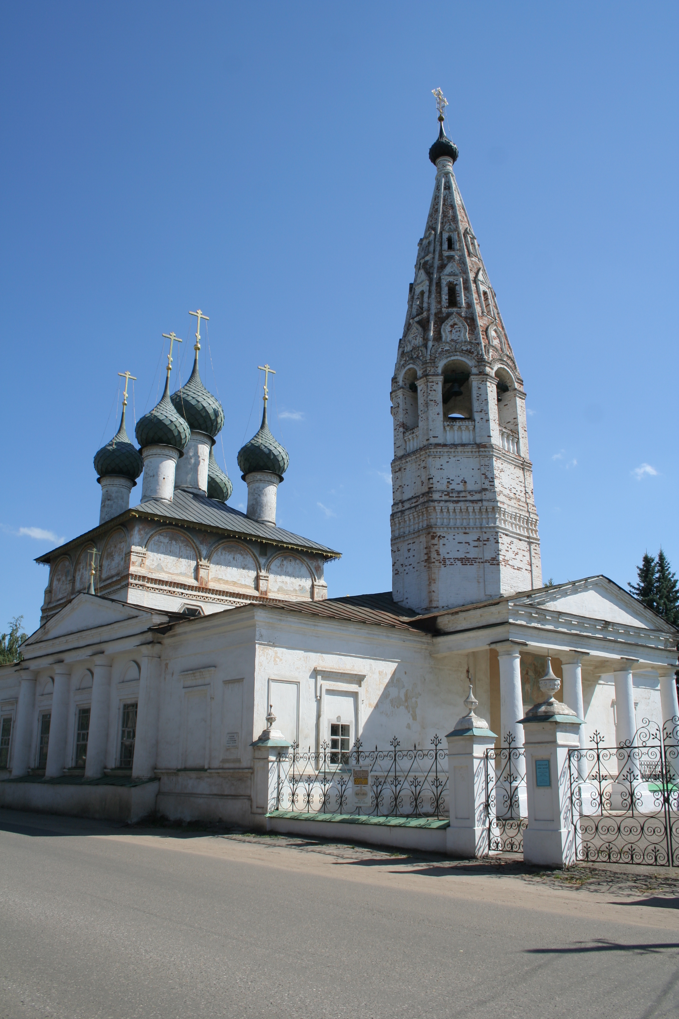 Old town of Nerekhta, Kostroma Oblast, Russia. Church of the Epiphany, also know as Church of Saint Nicholas (built in 1710—26).